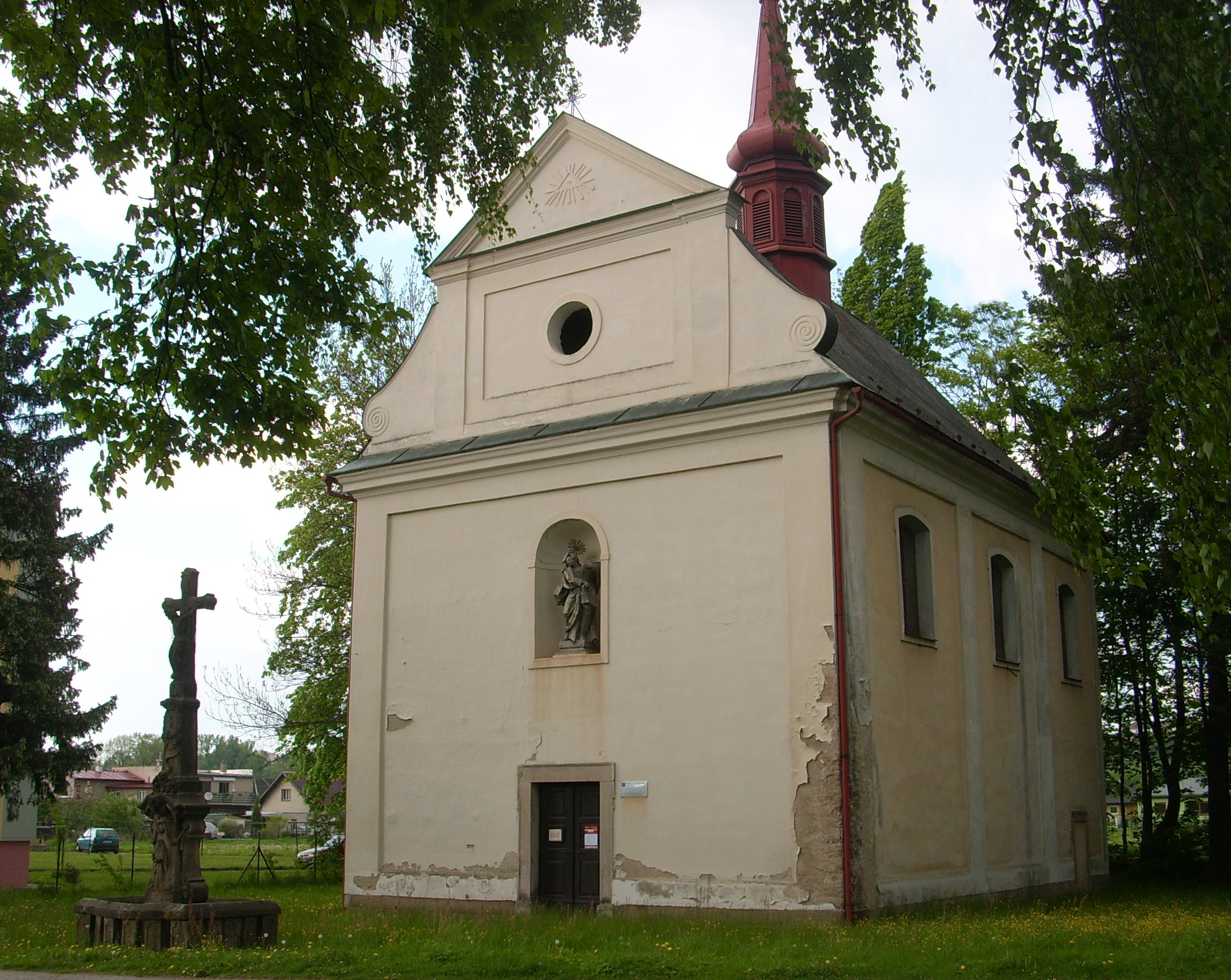 Ústí nad Orlicí-Hylváty, Chapel of St. Anne.